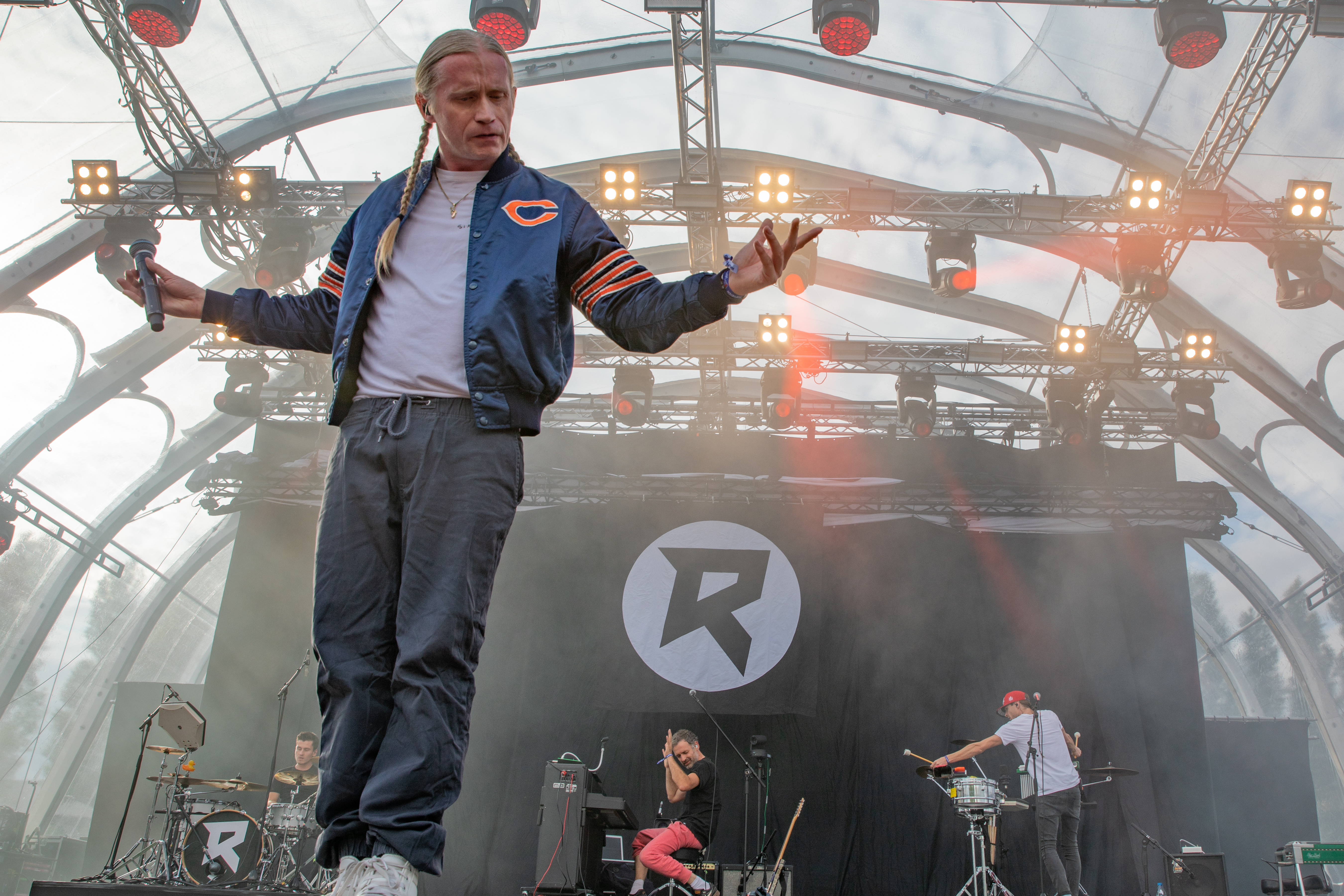 Romano at Fritz DeutschPoeten 2018